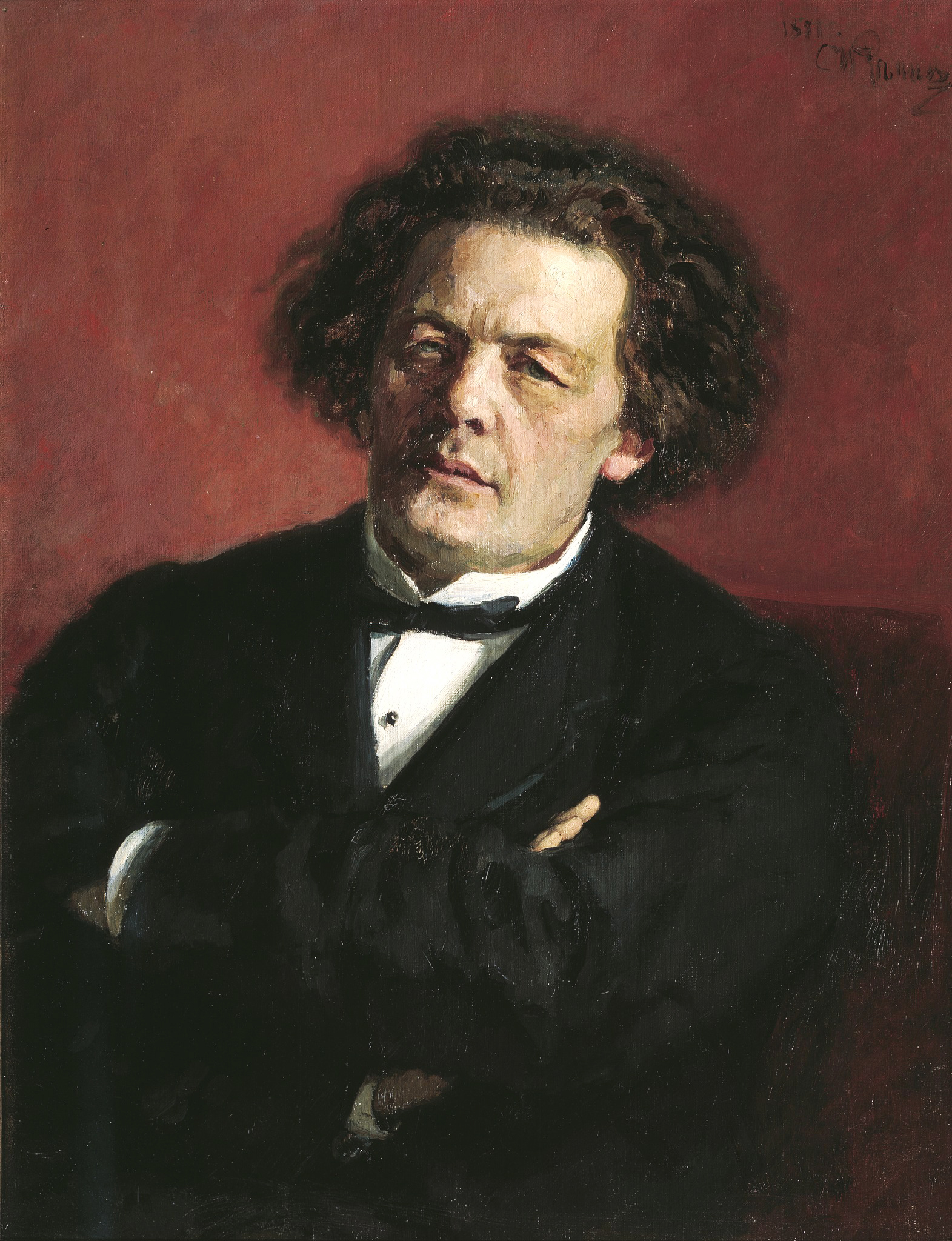 Portrait of Composer Anton Grigorevich Rubinstein